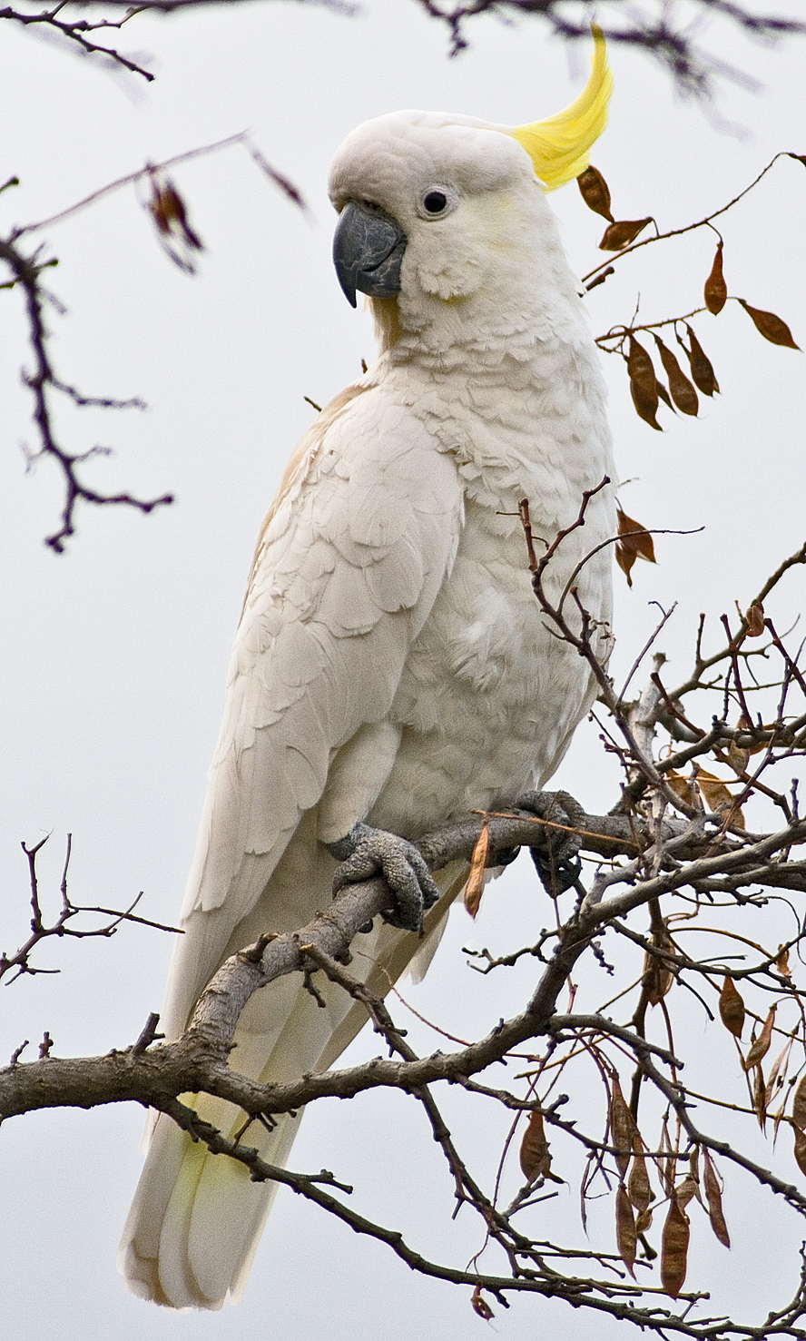 Sulphur-crested Cockatoo at Austins Ferry, Tasmania, Australia. Camera data Camera Canon EOS 400D Lens Canon EF 400mm f5.6L w/ 1.4x teleconverter Focal length 560 mm Aperture f/8 Exposure time 1/640 s Sensivity ISO 400